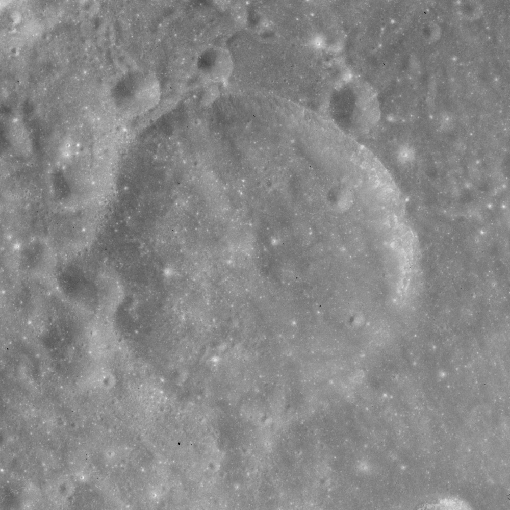 Atwood crater, Mare Fecunditatis, on the moon. Rotated so that north is at top.